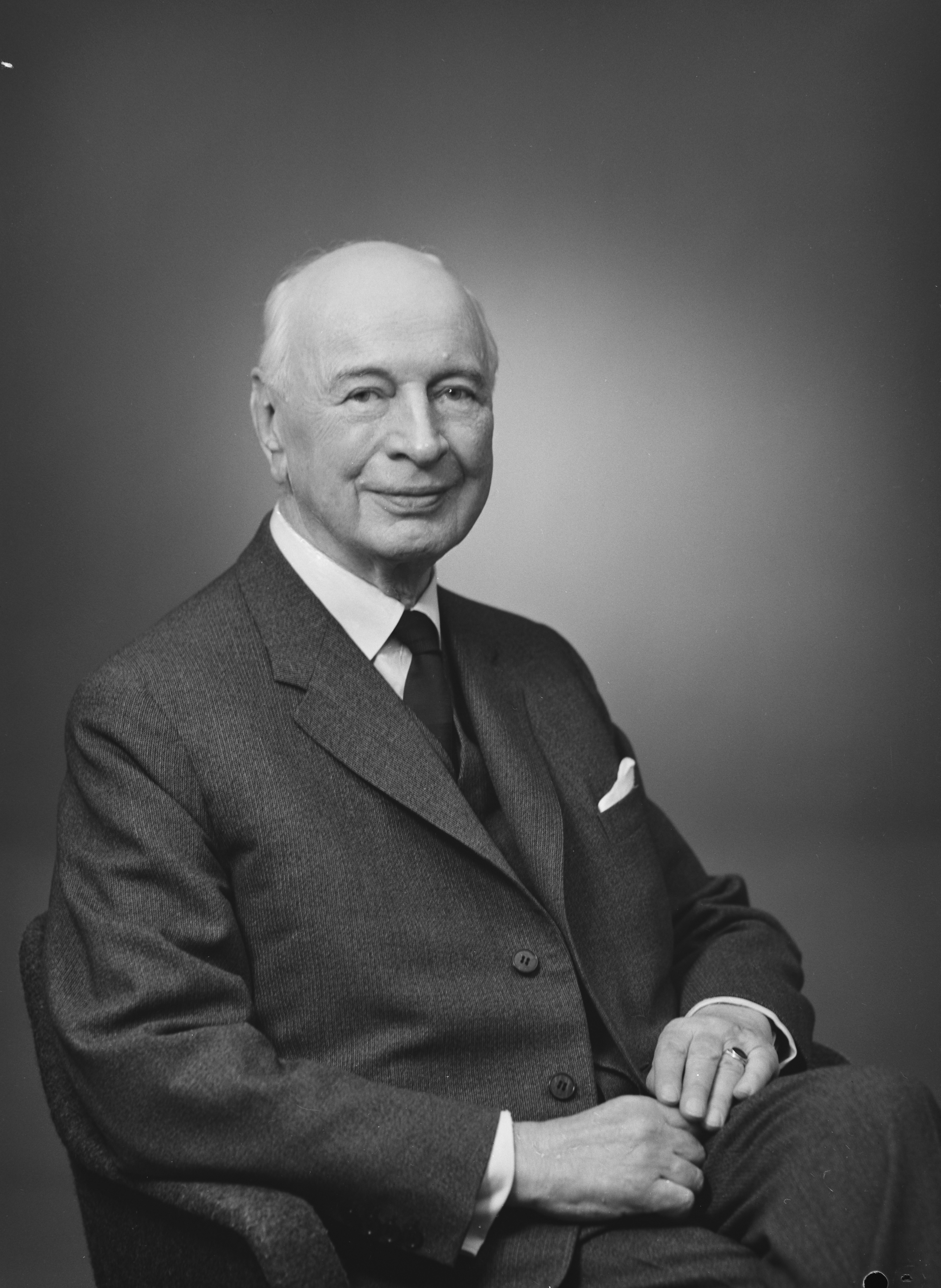 Photograph of the Finnish parliamentary administrator Kurt Antell (1890–1972).